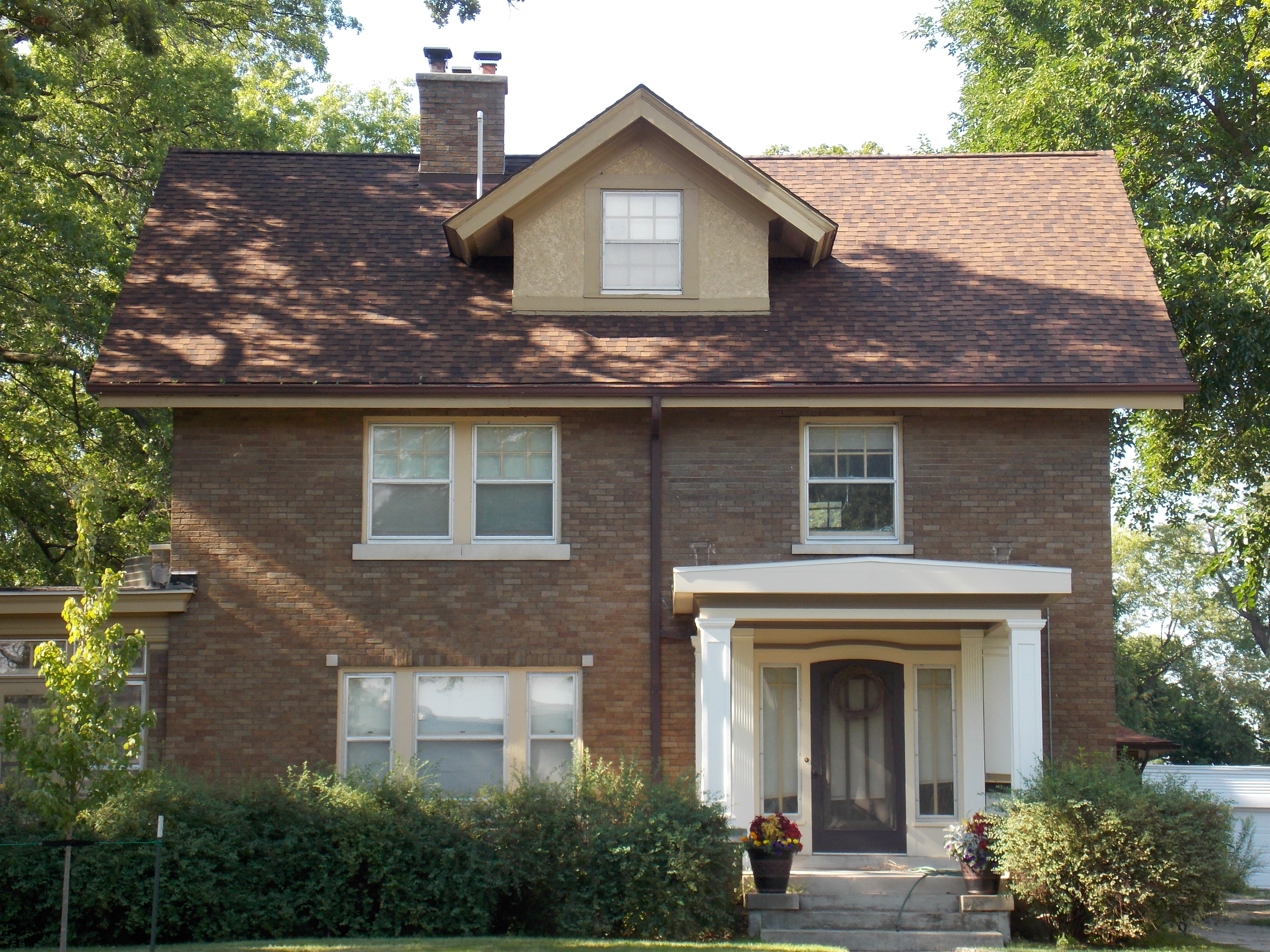 The house at 822 East Locust Street in Davenport, Iowa is a contributing property in the Oak Lane Historic District.